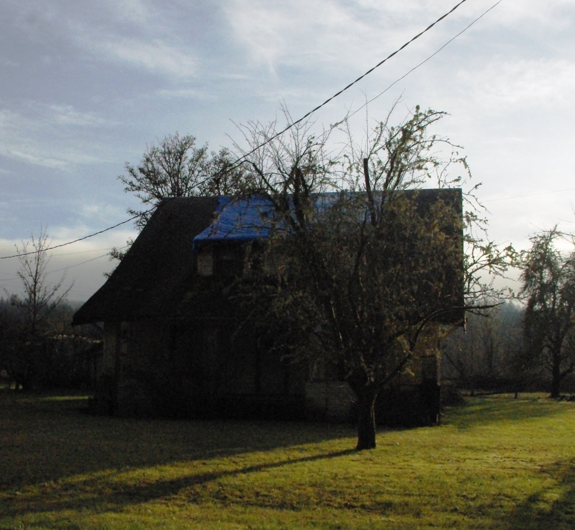 A house in the Riverside area of Columbia County, Oregon.